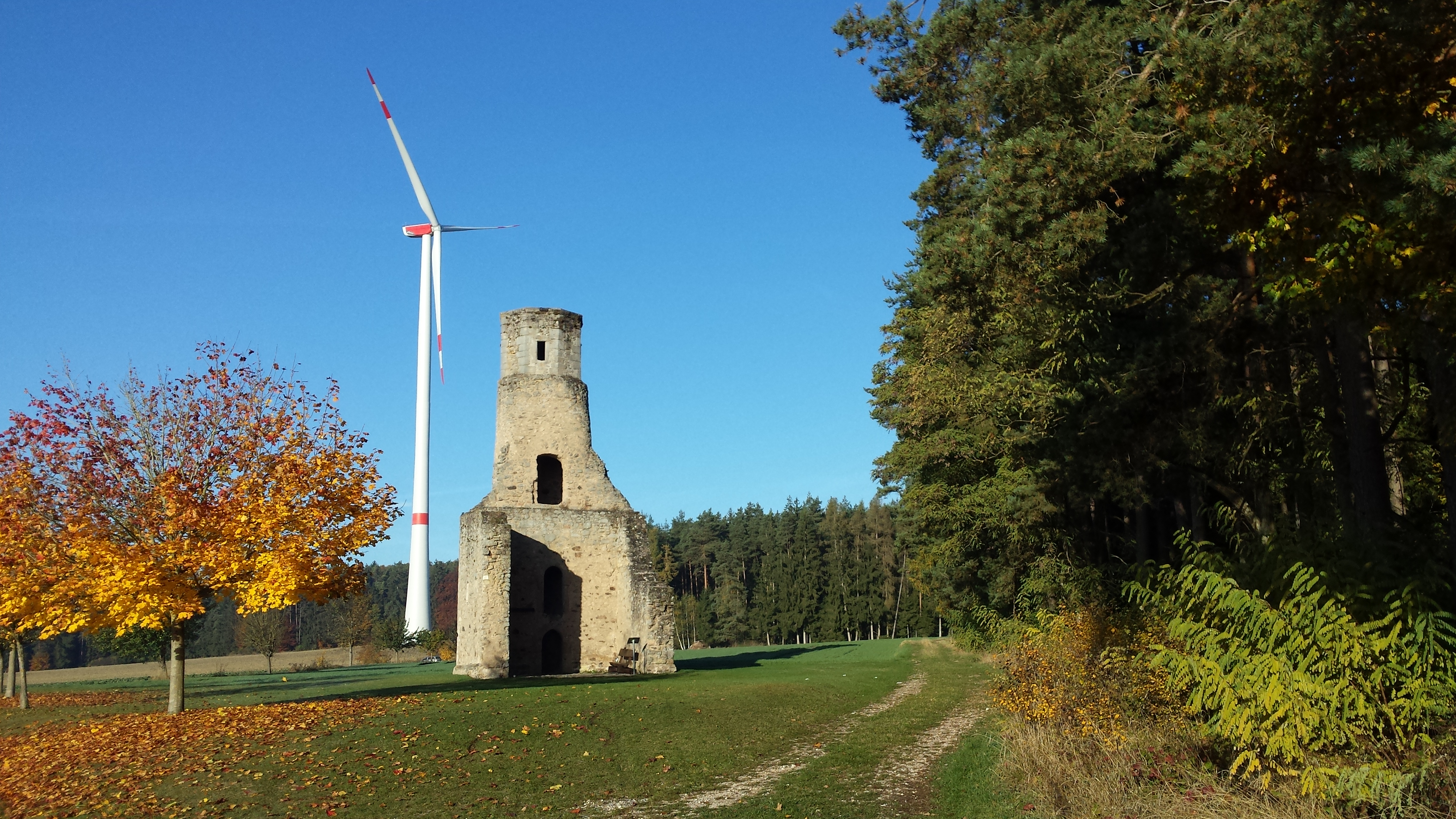 Church ruin namend "Zirkelkappl" near Dentlein am Forst, Bavaria, Germany